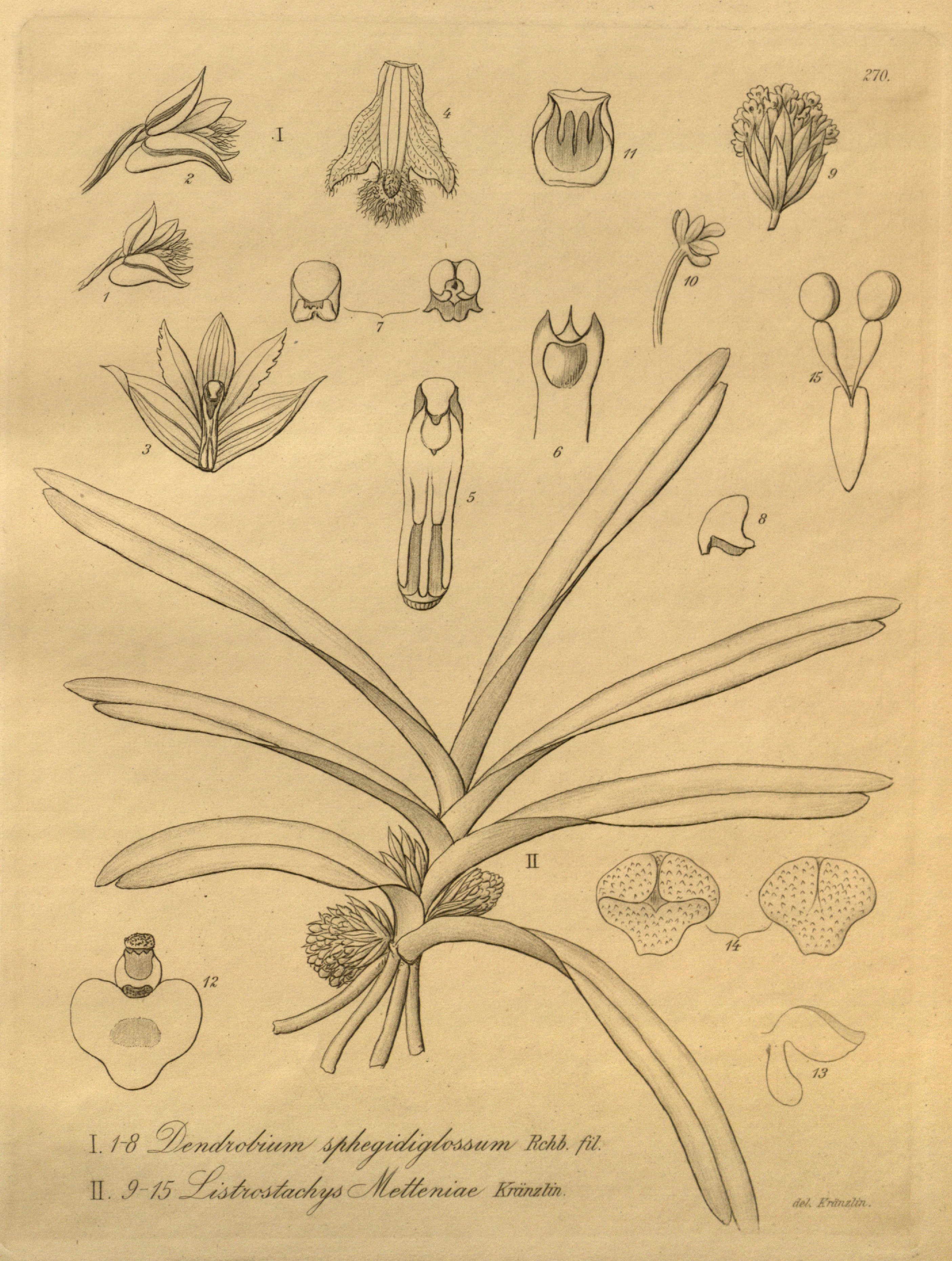 Illustration of I, 1-8' Dendrobium stuposum (as syn. Dendrobium sphegidoglossum) II, 9-15. Ancistrorhynchus metteniae (as syn. Listrostachys metteniae)